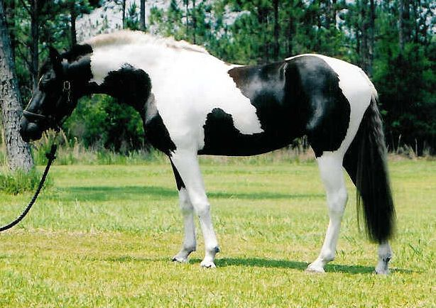 pinto sporthorse (sport horse) mare